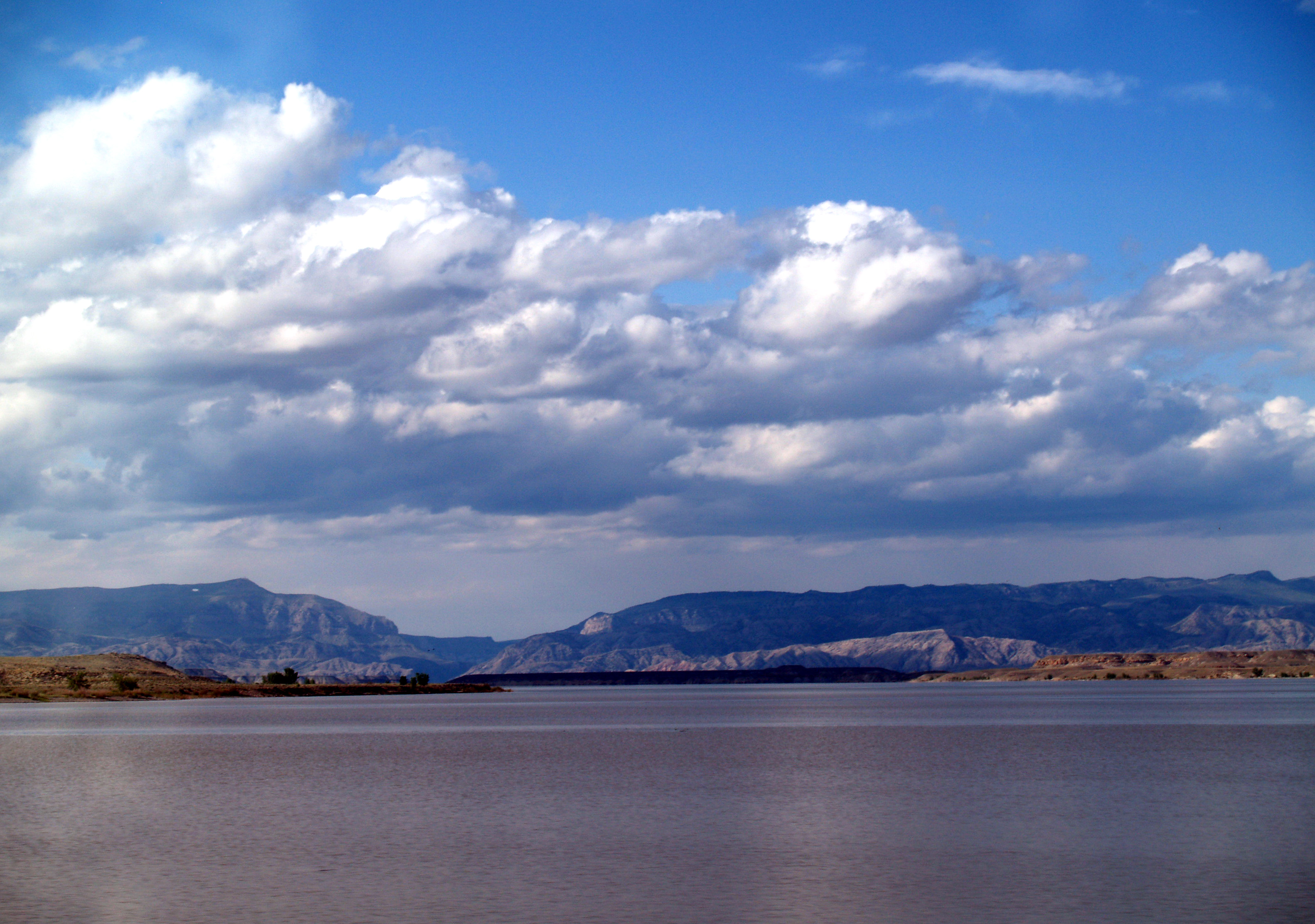 The Boysen Reservoir, containing the Wind River . Located in Boysen State Park, Fremont County, in the central part of Wyoming.